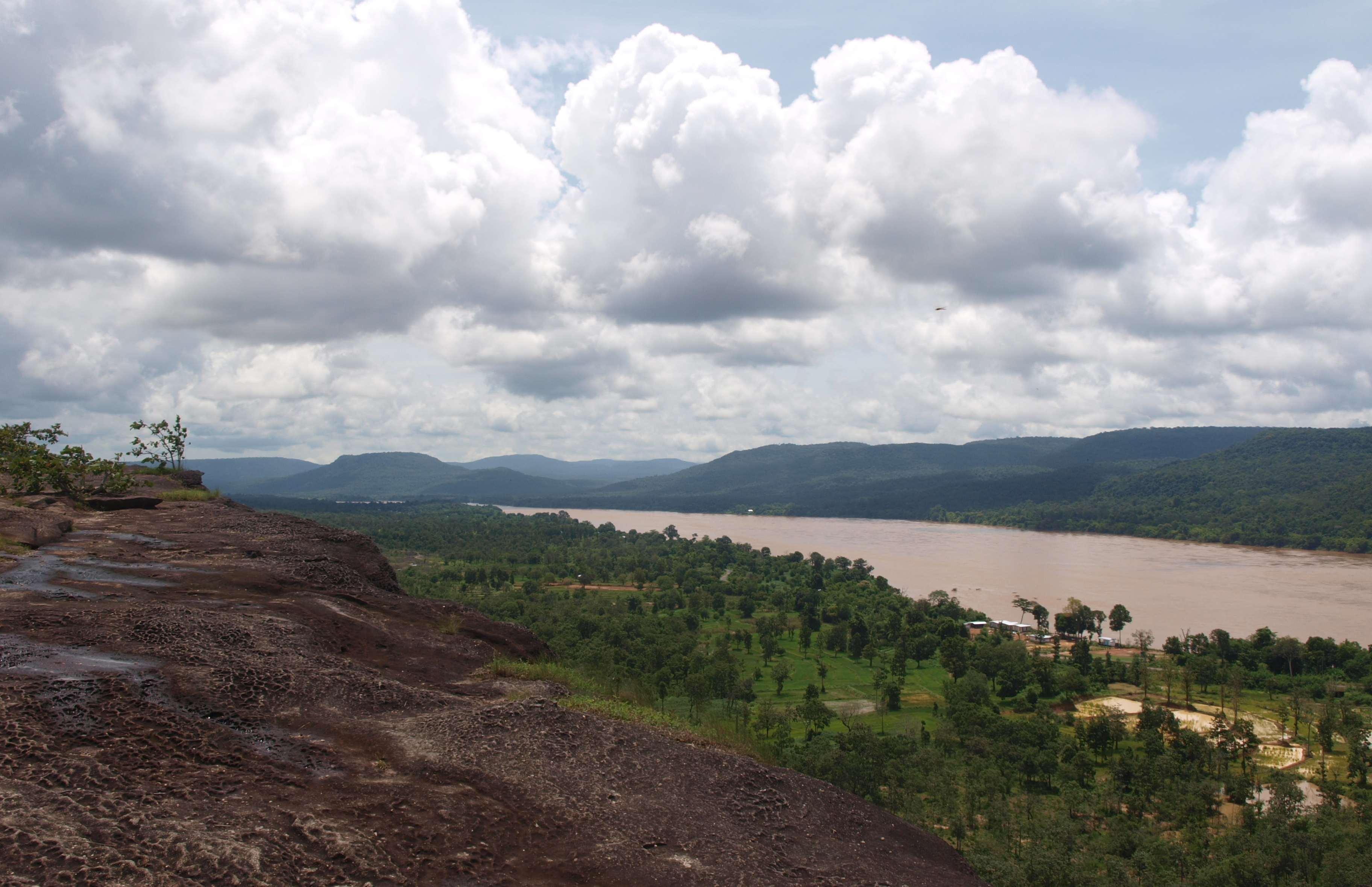 Pha Taem National Park in Thailand; view from the rocks. The Mekong river is the border between Thailand and Laos.